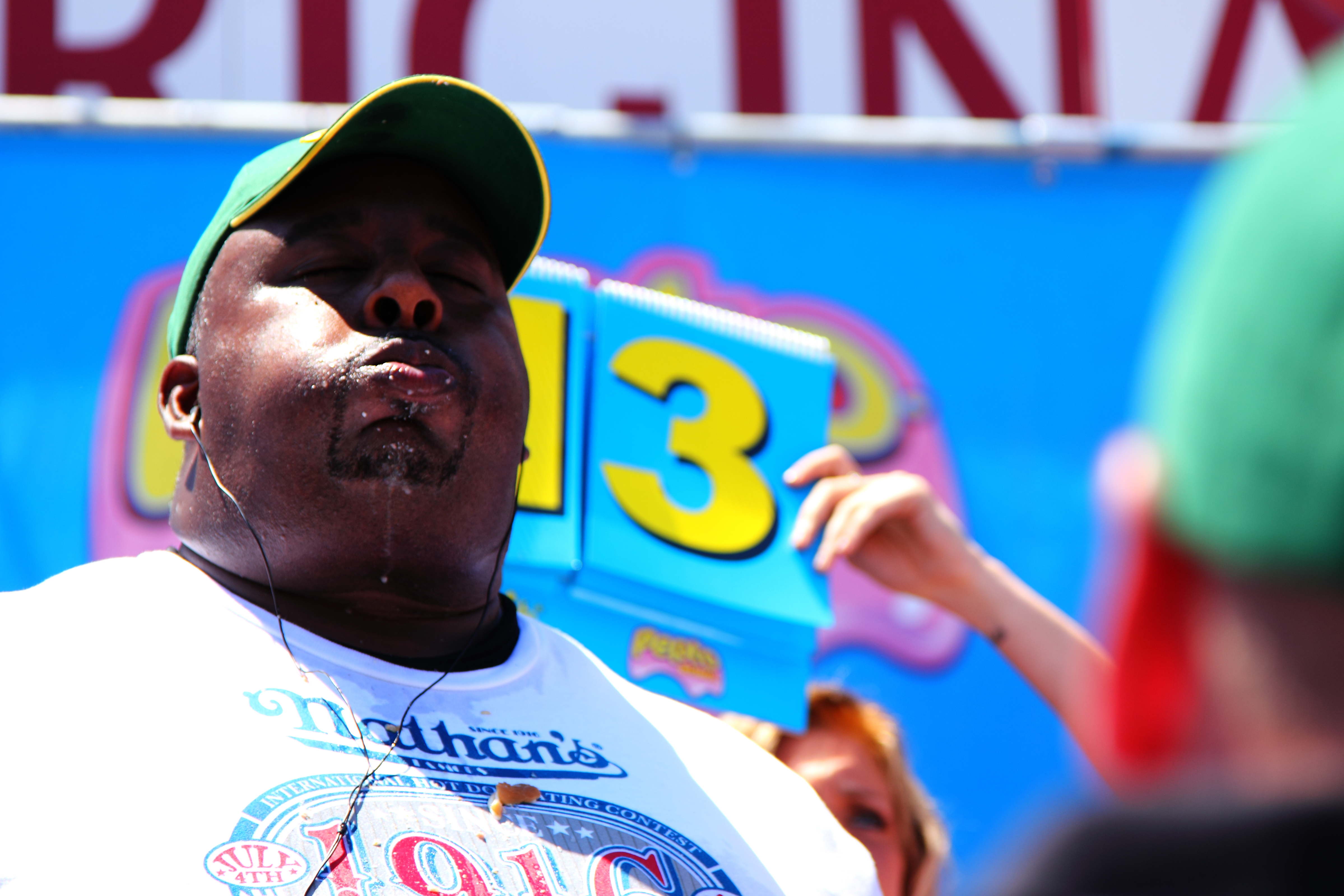 "Eric "Badlands" Booker packs away his 14th at the Nathan's 2010 Hot Dog Eating Contest. Eric was a highlight in this competition for me because he's wonderful with the fans and seems to have a great time when he competes."